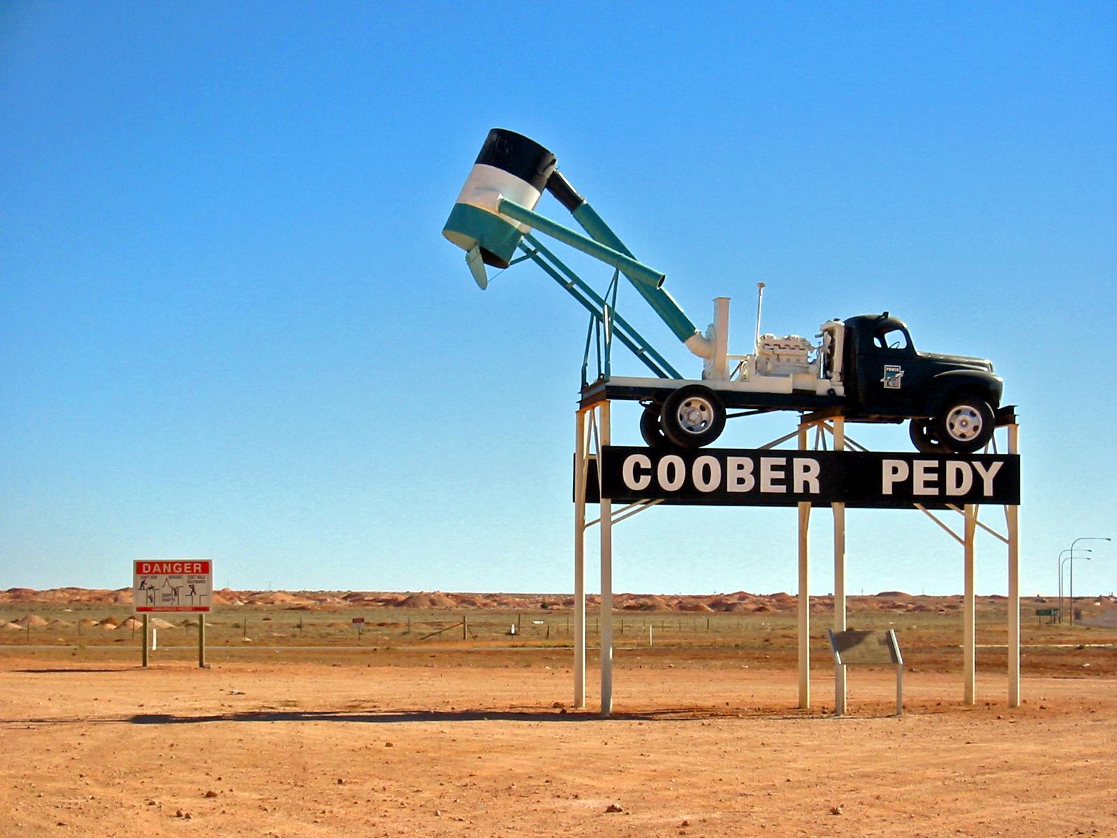 Coober Pedy (»Opal Capital of the World«), Australia